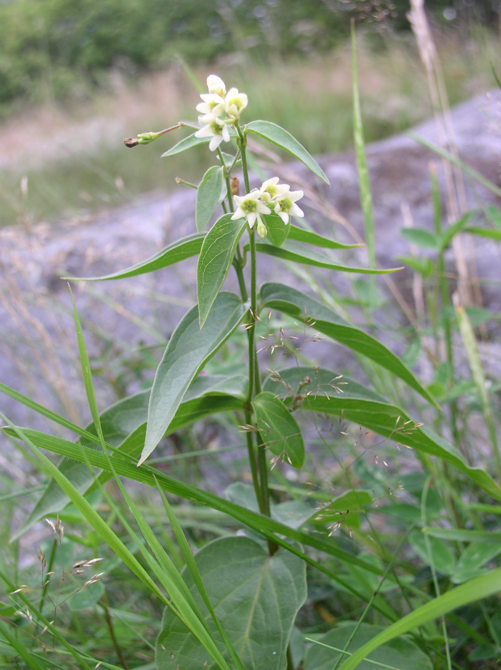 Vincetoxicum hirundinaria inflorescence in Turku, Finland.